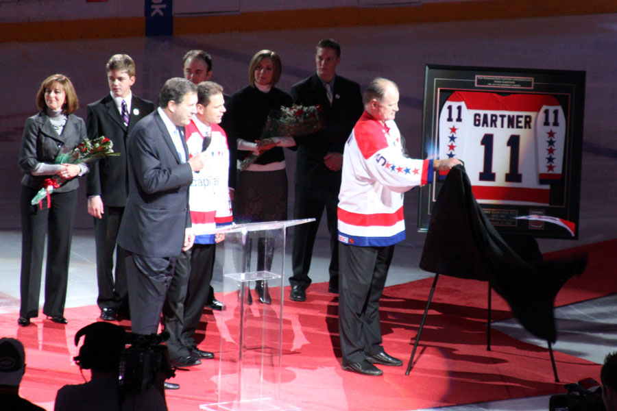 Revealing Mike Gartner's retired number